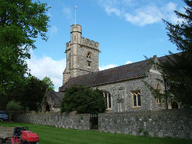 St.Michael Church in Chenies from the east. Chenies is a lovely village in rural Buckinghamshire